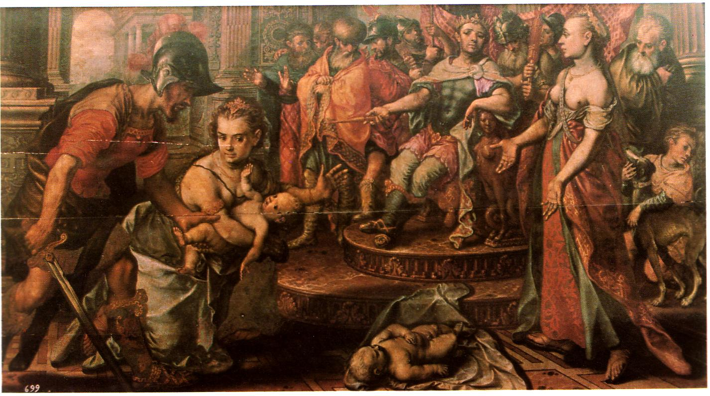 «Solomon's juice»